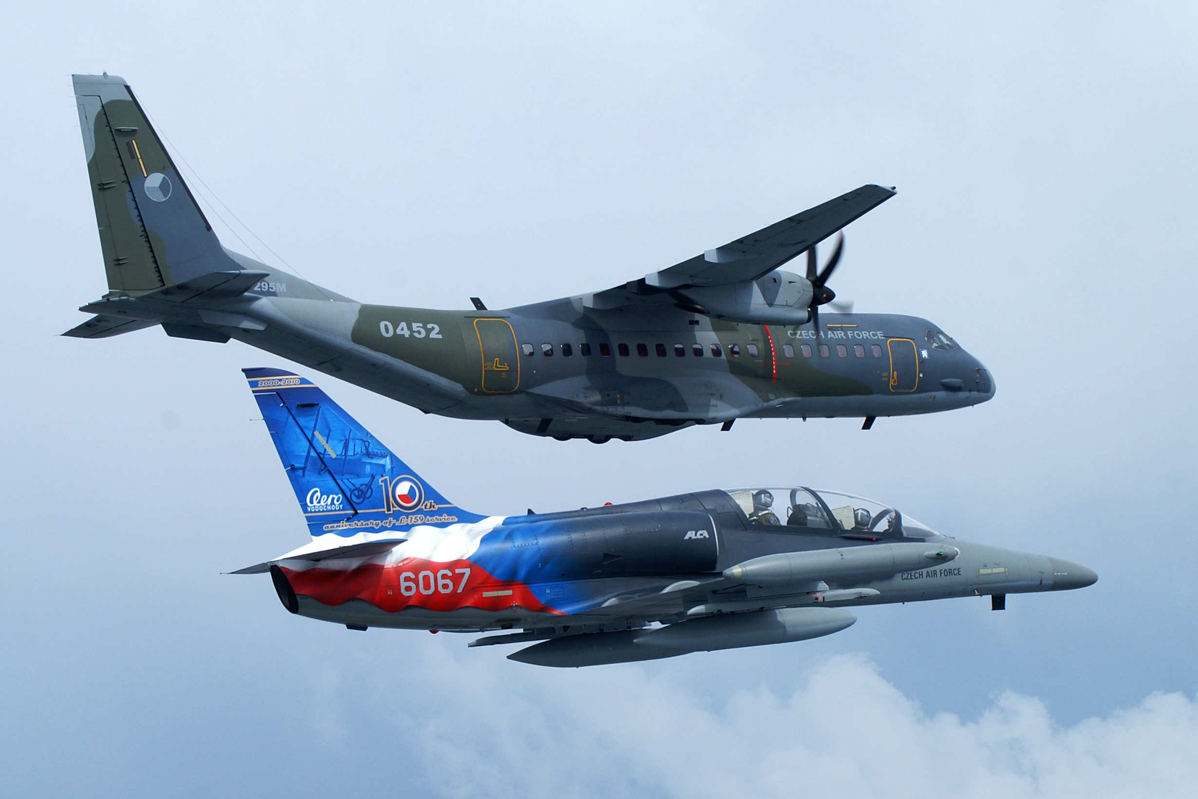 6067+CASA